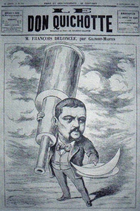 Cartoon of François Deloncle, published in Le Don Quichotte, 11 September 1892, ridiculing his proposal to build for the Paris Exhibition of 1900 a giant refractory telescope "that would bring the moon within a meter".